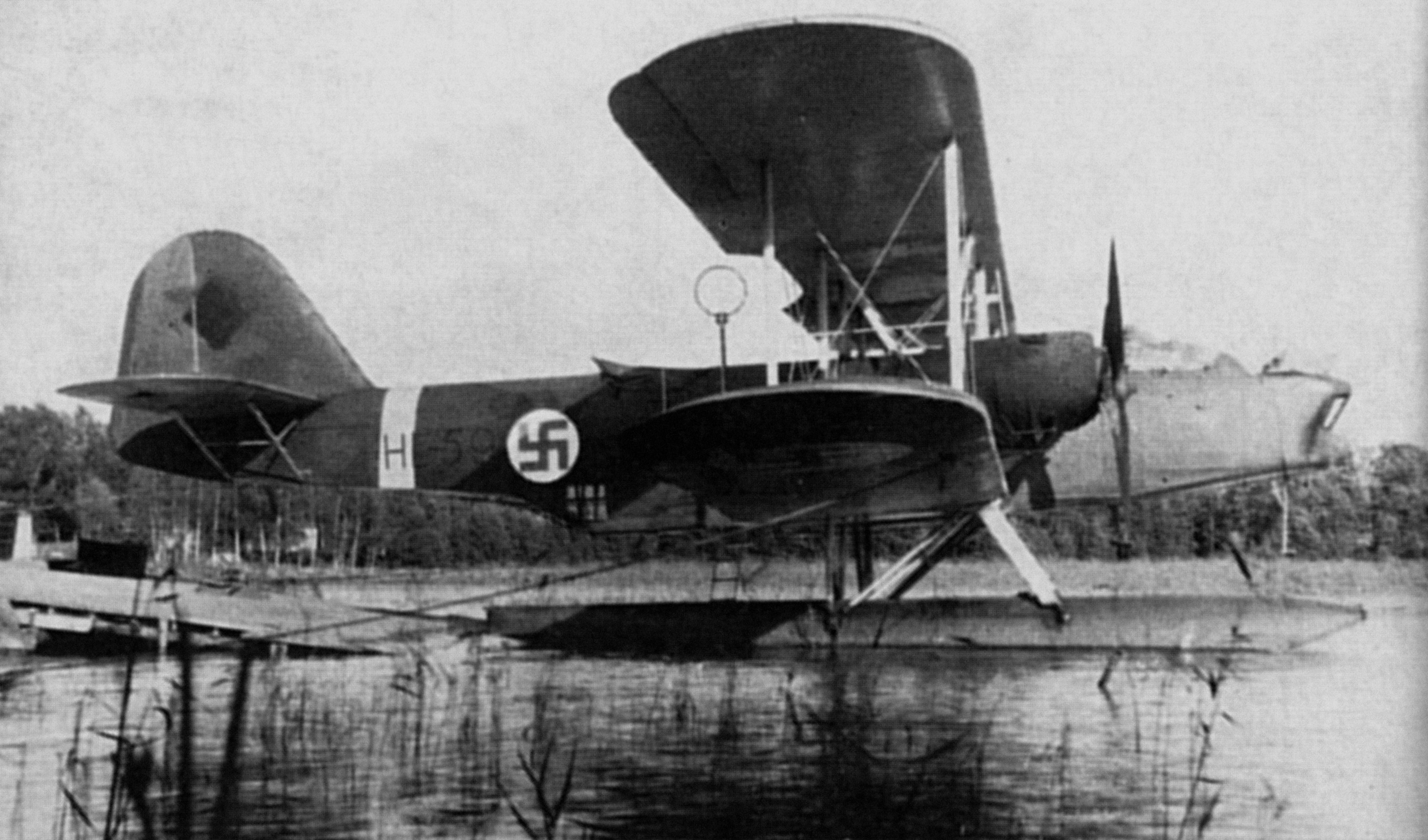 German Heinkel He 59, WWII in Finland